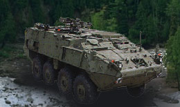 M1135 NBC Reconnaissance Vehicle